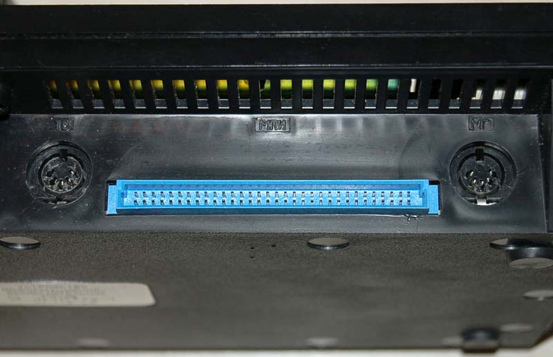 MPI connector on the Soviet BK computer